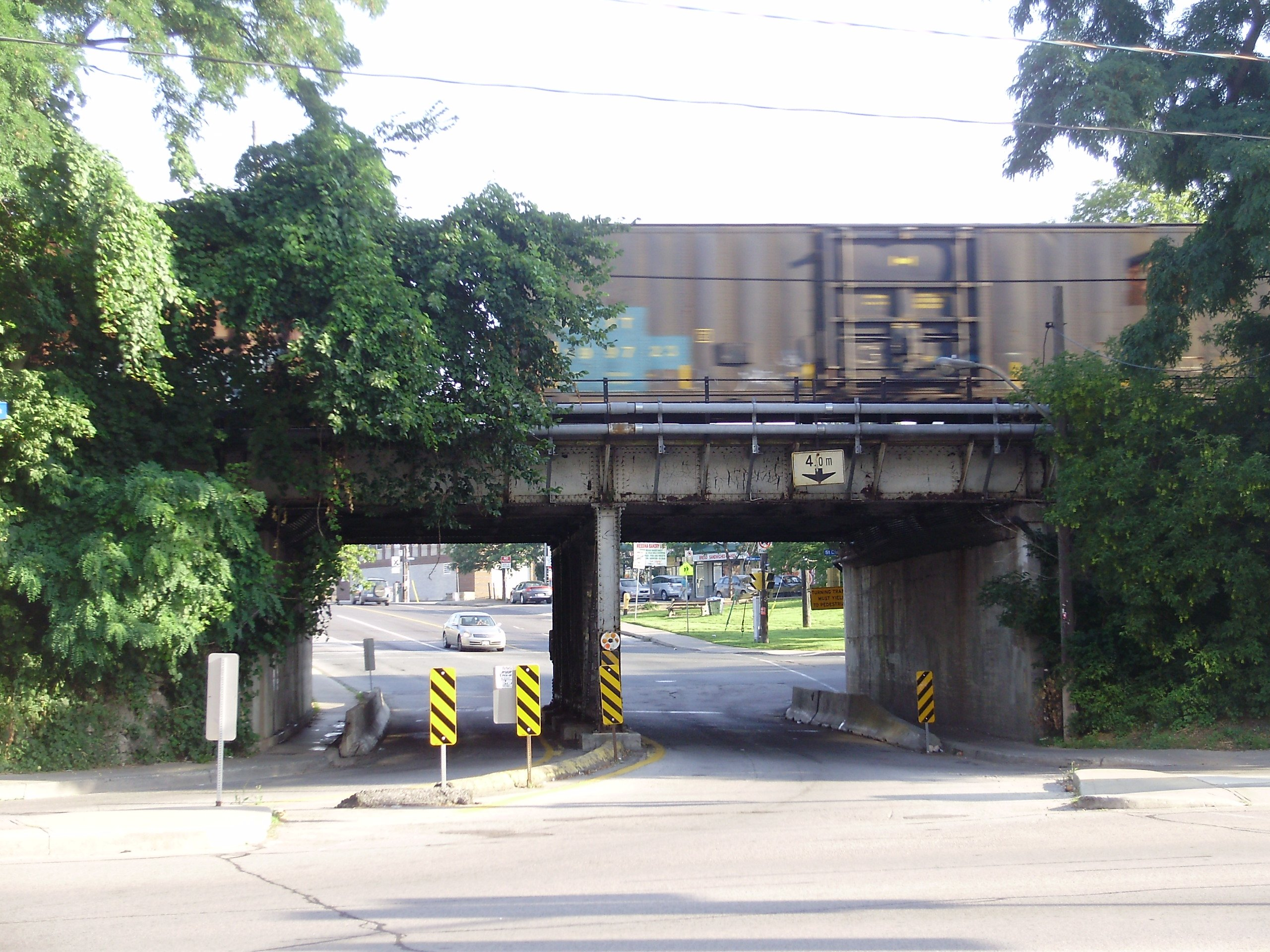 A freight train speeds across the railway bridge at the foot of Scarlett Road, photographed from Dundas Street West in Toronto, Ontario, Canada.